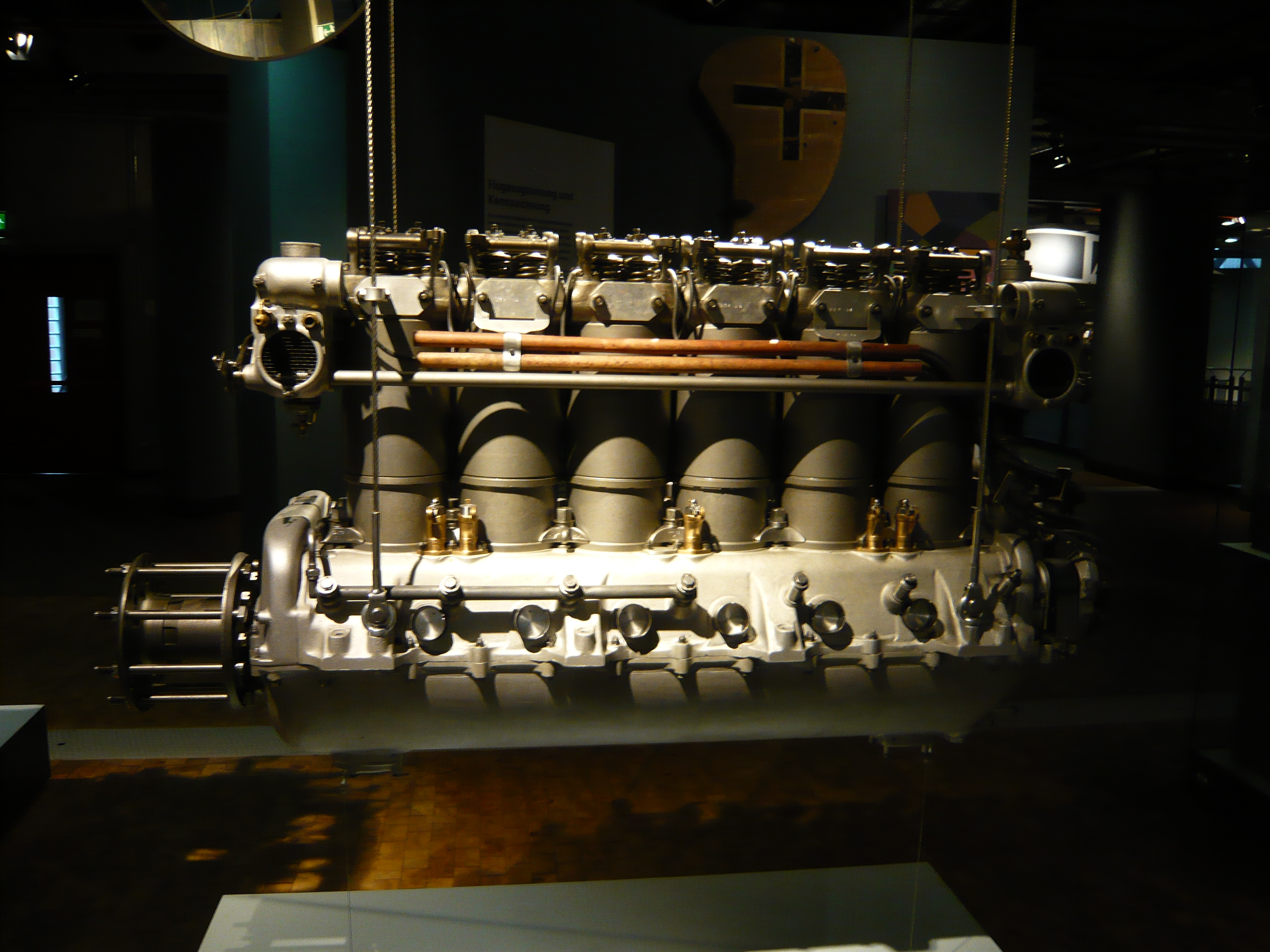 Maybach Mb.IVa (not a variant of the Mb.IV but a completely new design)